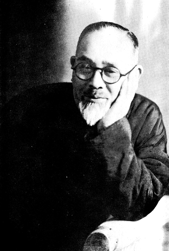 Jiichiro Matsumoto (松本治一郎 1887 - 1966), a Japanese politician, a leader of the Buraku Liberation League, one of the most famous activists of buraku liberation movement.